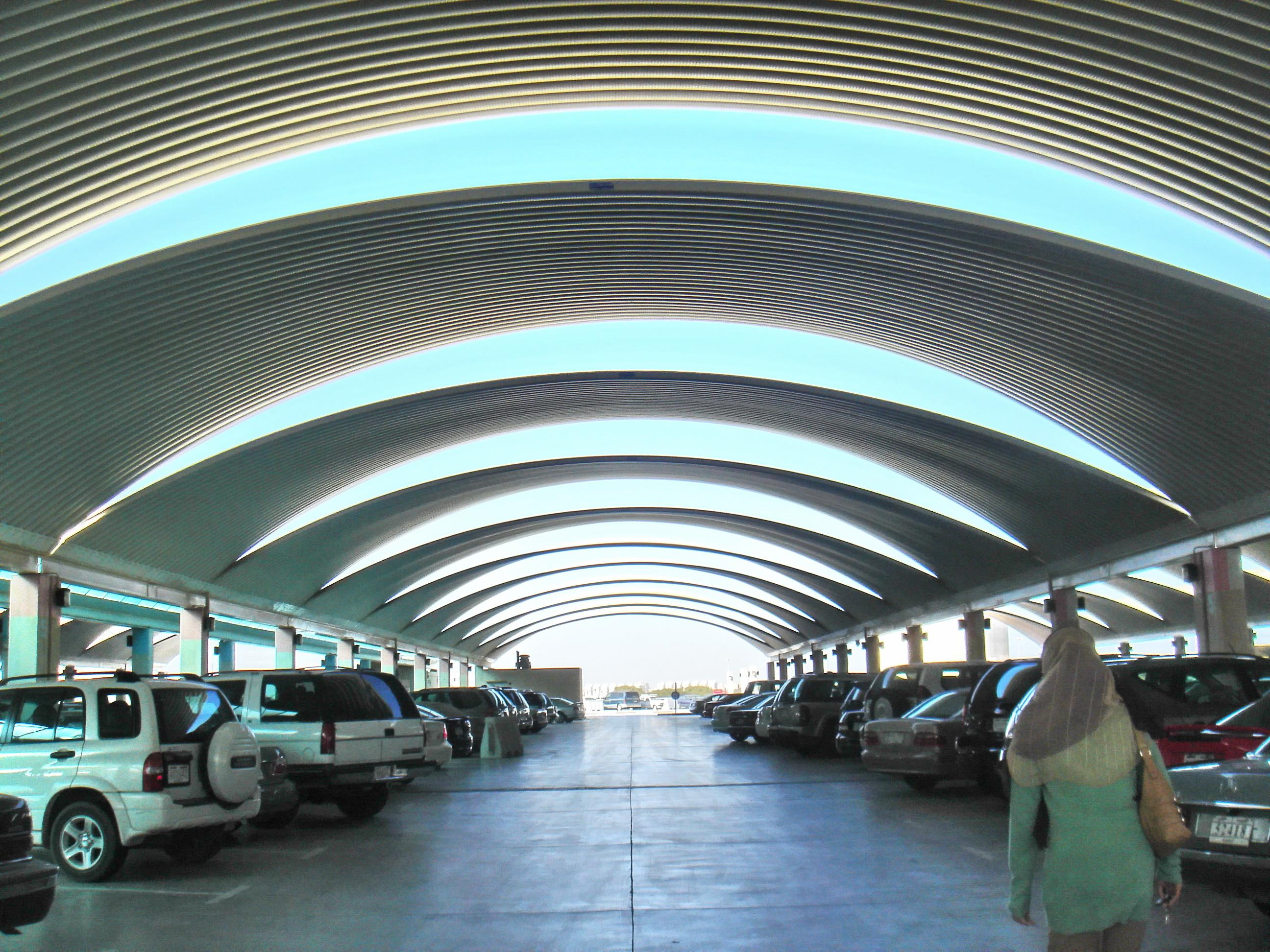 The traditional roof of the car park at the airport.